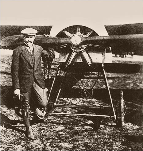 Argentine inventor Pablo Castaibert and one of his aircraft in Uruguay